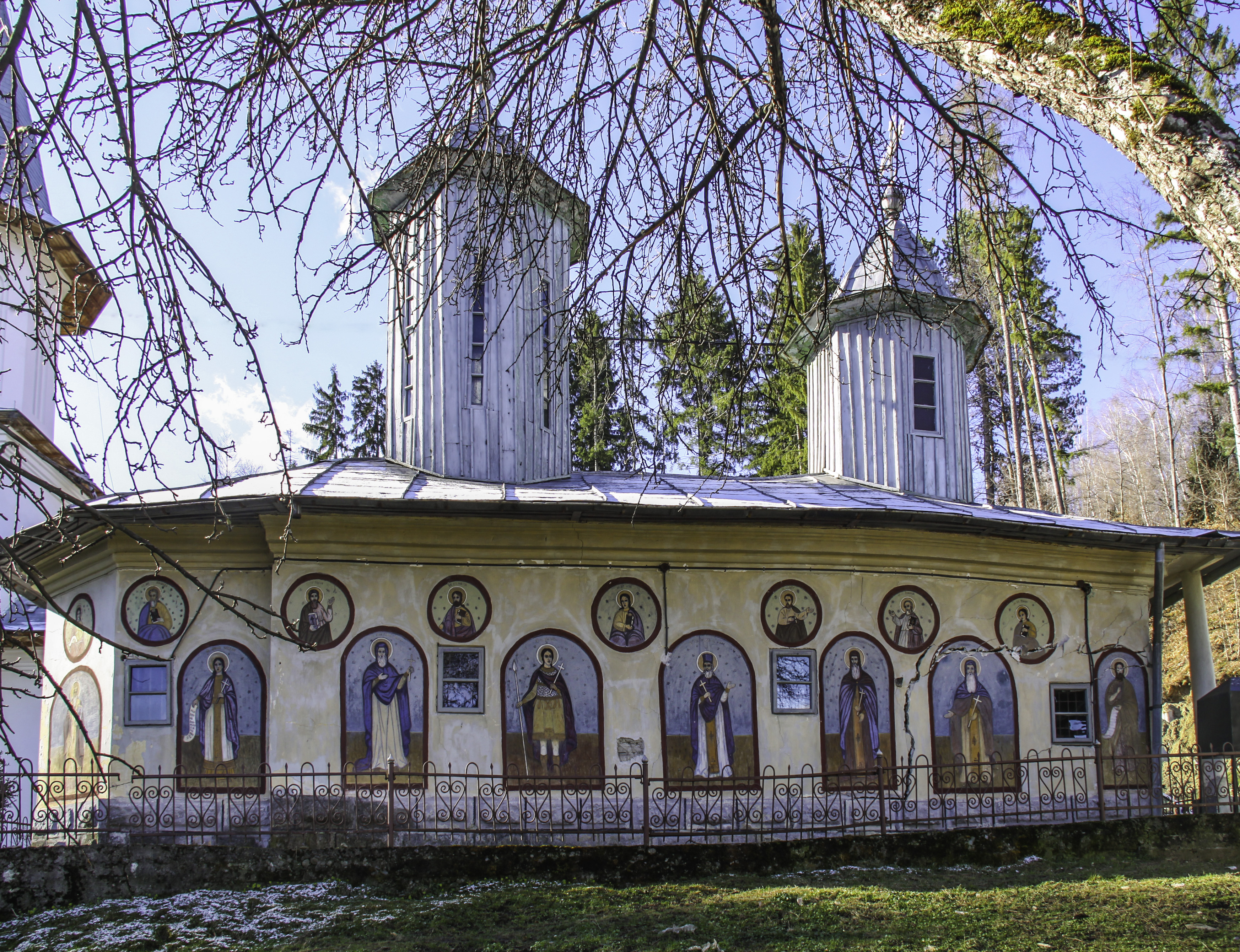 Wooden church in Schitu Ciocanu, Bughea de Jos, Argeș county, Romania 01